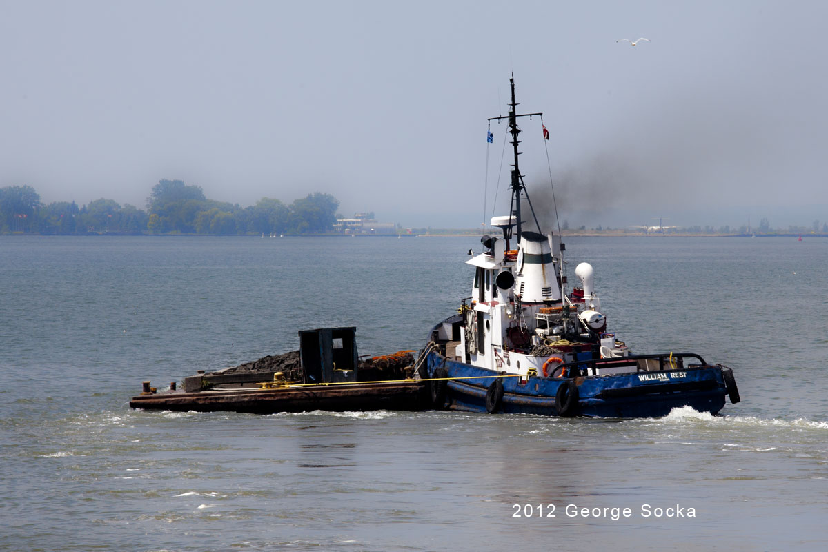 Tug boat with scow full of (probably) dredged material from the Keating Channel at the mouth of the Don River in Toronto. This photo shows what happens when you move the lightroom clarity slider all the way to the left - high frequency detail such as the waves is smoothed out. Using a mask, the tugboat itself has normal detail.